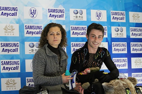 Brian Joubert and Veronique Guyon at the Cup of China 2010